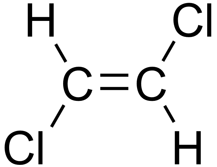 Chemical structure of an isomer of en:1,2-dichloroethene created with ChemDraw.